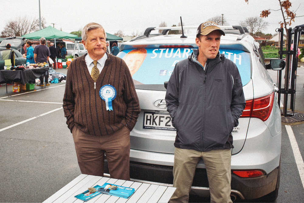 An election here in NZ in a couple of weeks. Do these lads look conservative or what!? I like this photo for the content - a snap of real life. I dont think the fellow on the right is at all comfortable being there. This is not a "streets of NY" image but to me it has just as much meaning. The people are campaigning for Stuart Smith, who (successfully) stood in the Kaikoura electorate.